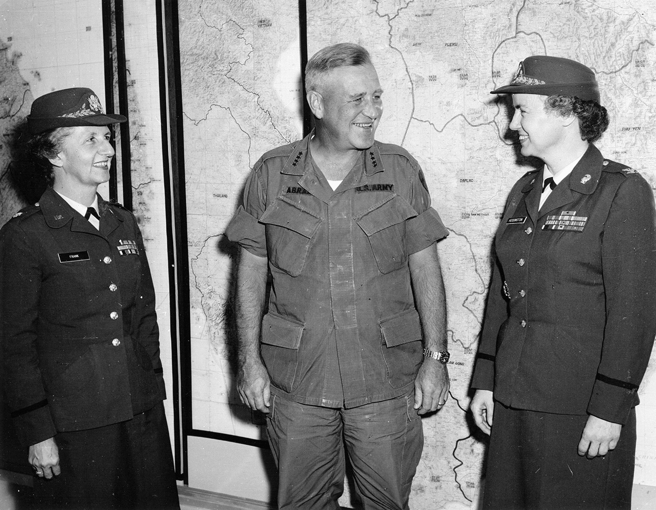 From the back of the photograph: LTC Frank, WAC Staff Advisor; Gen Abrams, DEPCOMUSMACV; Col. Hoisington, Director, WAC, at Hq MACV, Saigon - 21 Sept 67